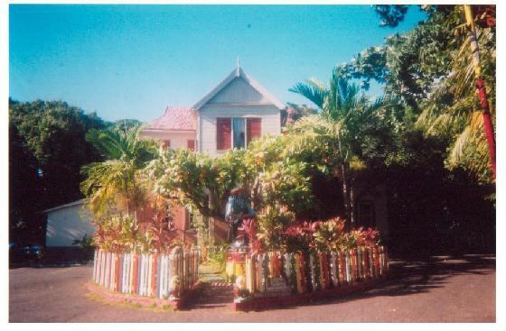 Bob Marley Mueseum 56 Hope Road Kingston 6 Jamaica Autoria: User:LionOfJudah80